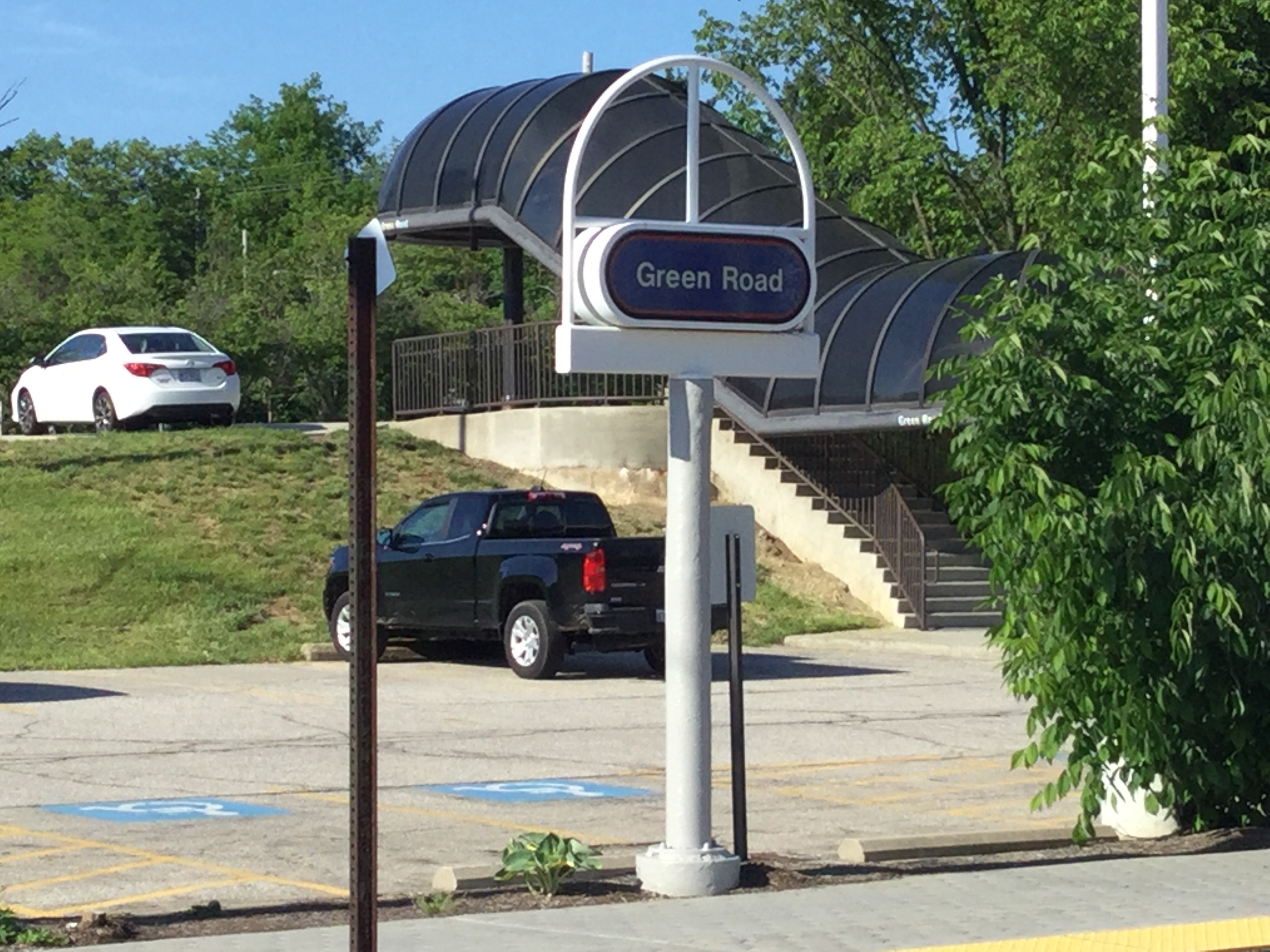 RTA station